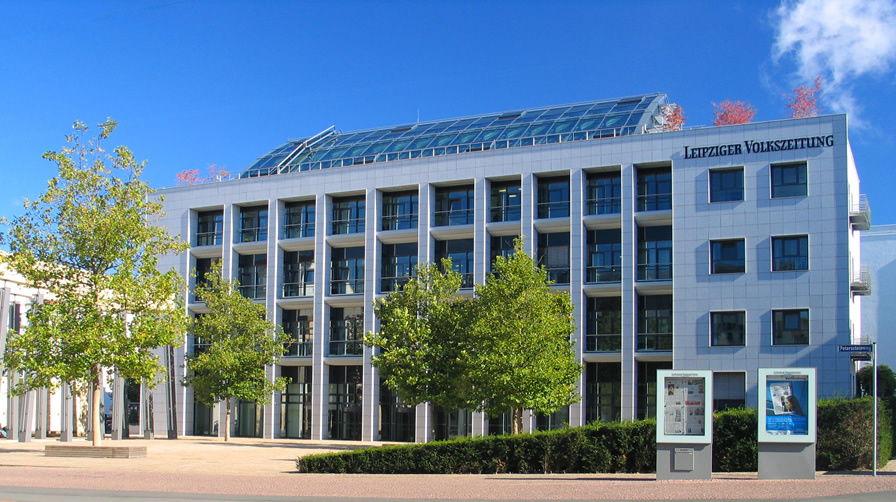 Central of the newspaper Leipziger Volkszeitung (LVZ) Leipzig/Germany